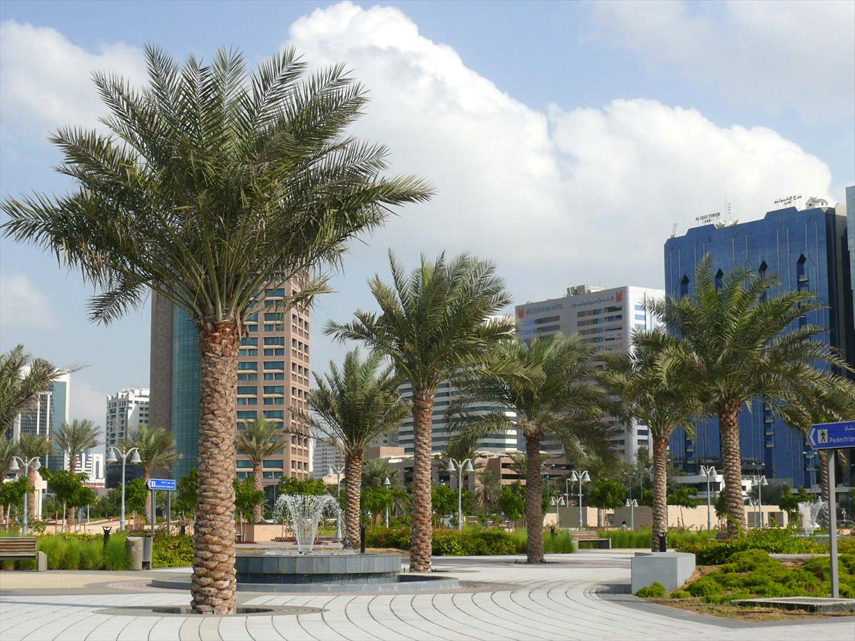 This is a photo of a public space in the center of Abu Dhabi, United Arab Emirates on 27 December 2007.